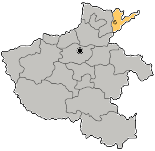 The prefecture-level city of Puyang is highlighted on this map of Henan province, People's Republic of China.